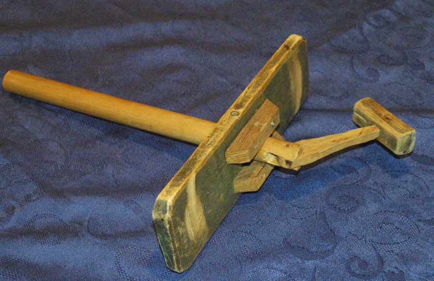 A "Klapper" from the Frankonian Switzerland region in Germany. Tool to make noise in traditional Easter customs